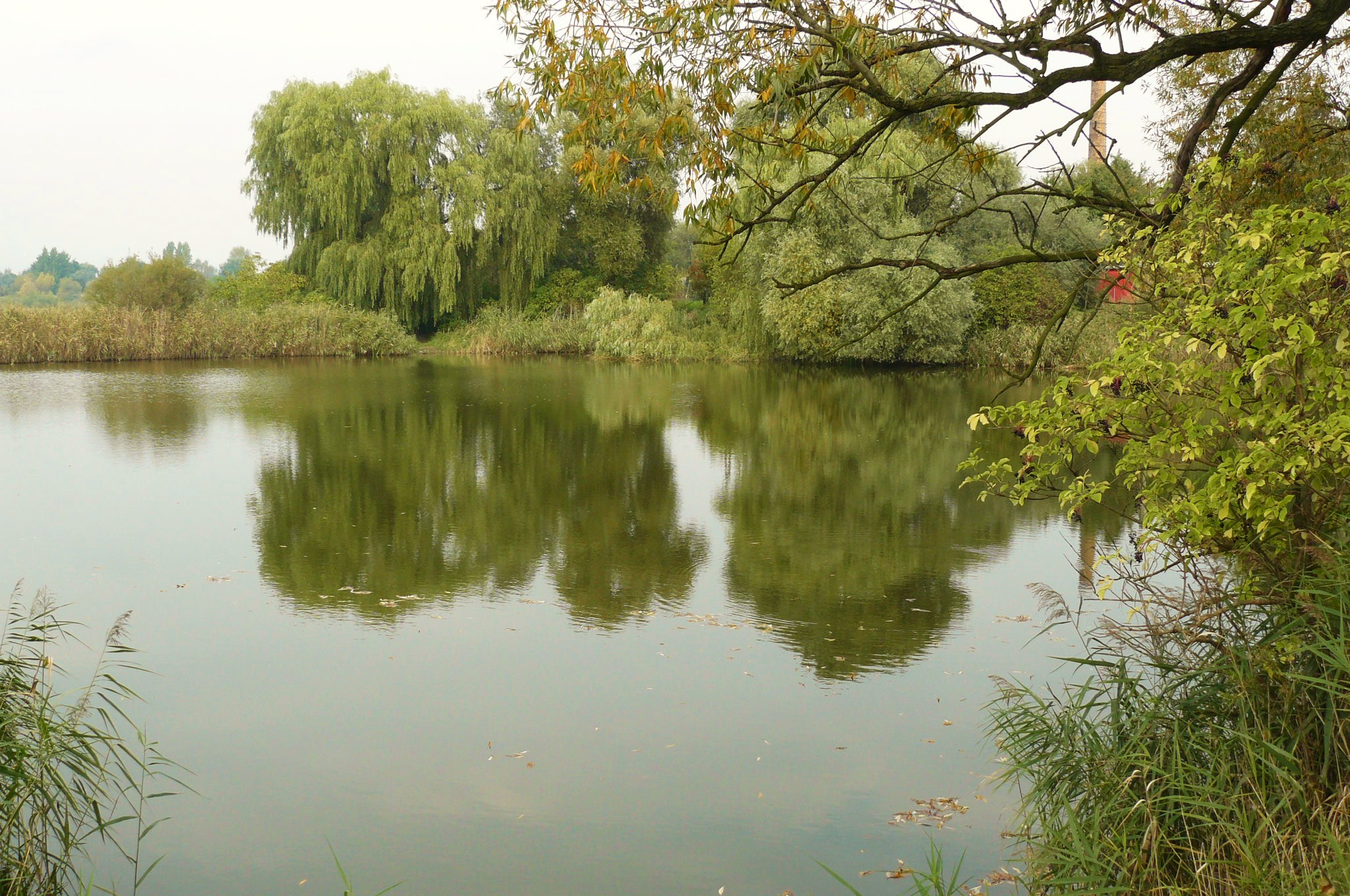 Szachty District in Poznan, pond (Clay-pit).